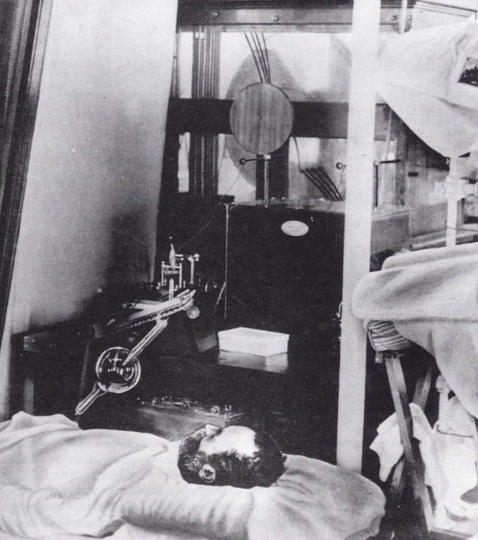 A patient is X-rayed aboard the United States Army hospital ship Relief (later the United States Navy hospital ship ) off Siboney, Cuba, in 1898 during the Spanish-American War.